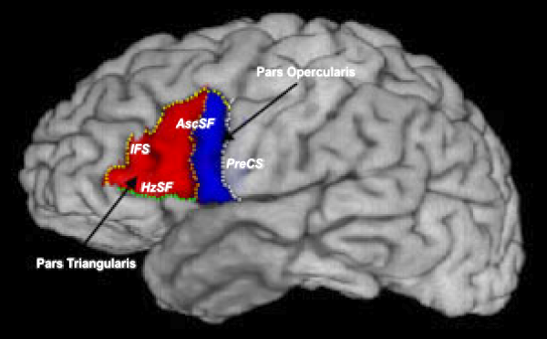 Broca’s area (left hemisphere) of the inferior frontal gyrus divided into the pars triangularis (PTri, red) and pars opercularis (POp, blue). PreCS: Precentral sulcus IFS: Inferior frontal sulcus AscSF Ascending ramus of Sylvian fissure HzSF Horizontal ramus of Sylvian fissure